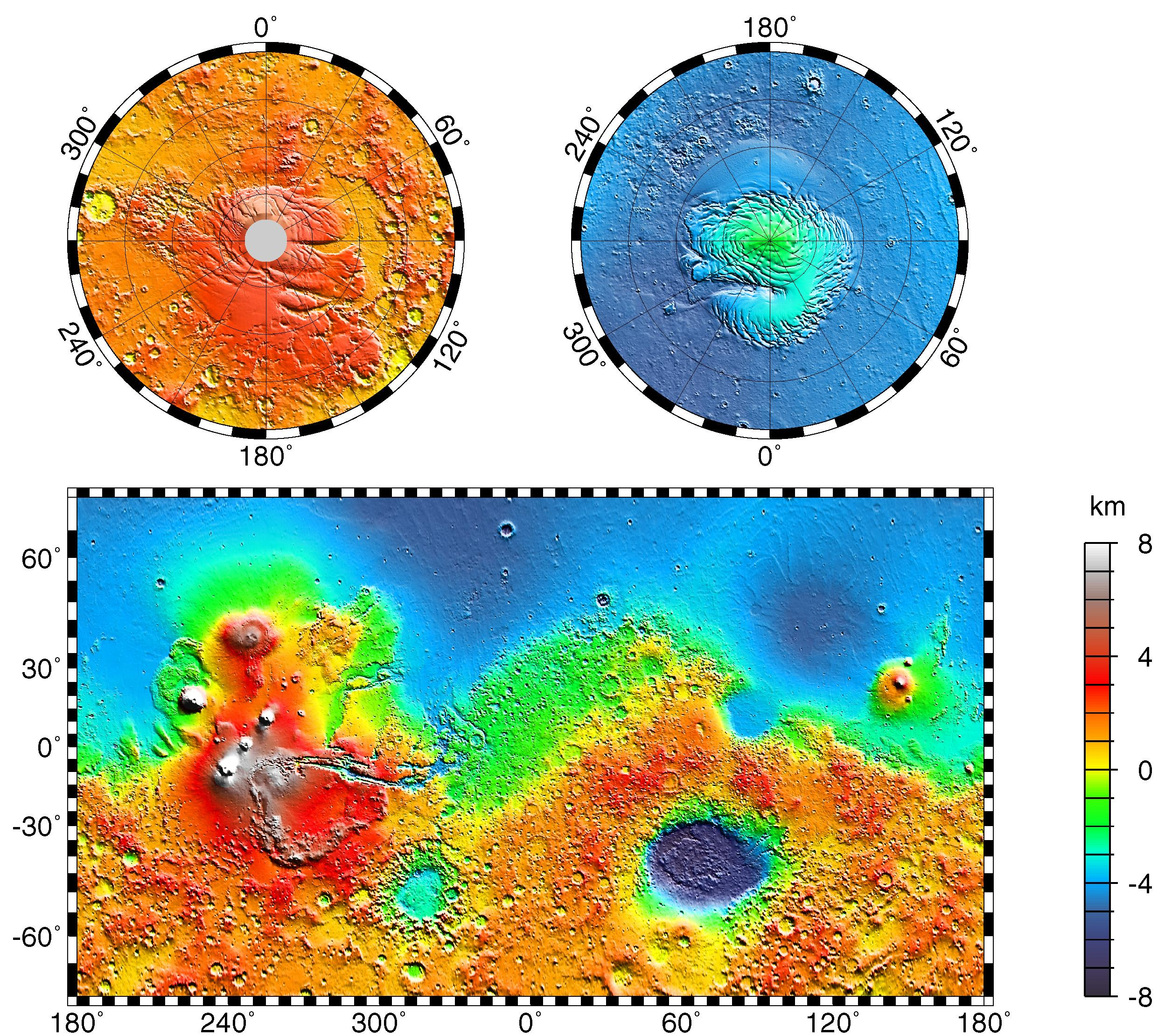 Maps of Mars' global topography. The projections are Mercator to 70° latitude and stereographic at the poles with the south pole at left and north pole at right. Note the elevation difference between the northern and southern hemispheres. The Tharsis volcano-tectonic province is centered near the equator in the longitude range 220° E to 300° E and contains the vast east-west trending Valles Marineris canyon system and several major volcanic shields including Olympus Mons (18° N, 225° E), Alba Patera (42° N, 252° E), Ascraeus Mons (12° N, 248° E), Pavonis Mons (0°, 247° E), and Arsia Mons (9° S, 239° E). Regions and structures discussed in the text include Solis Planum (25° S, 270° E), Lunae Planum (10° N, 290° E), and Claritas Fossae (30° S, 255° E). Major impact basins include Hellas (45° S, 70° E), Argyre (50° S, 320° E), Isidis (12° N, 88° E), and Utopia (45° N, 110° E). This analysis uses an areocentric coordinate convention with east longitude positive.